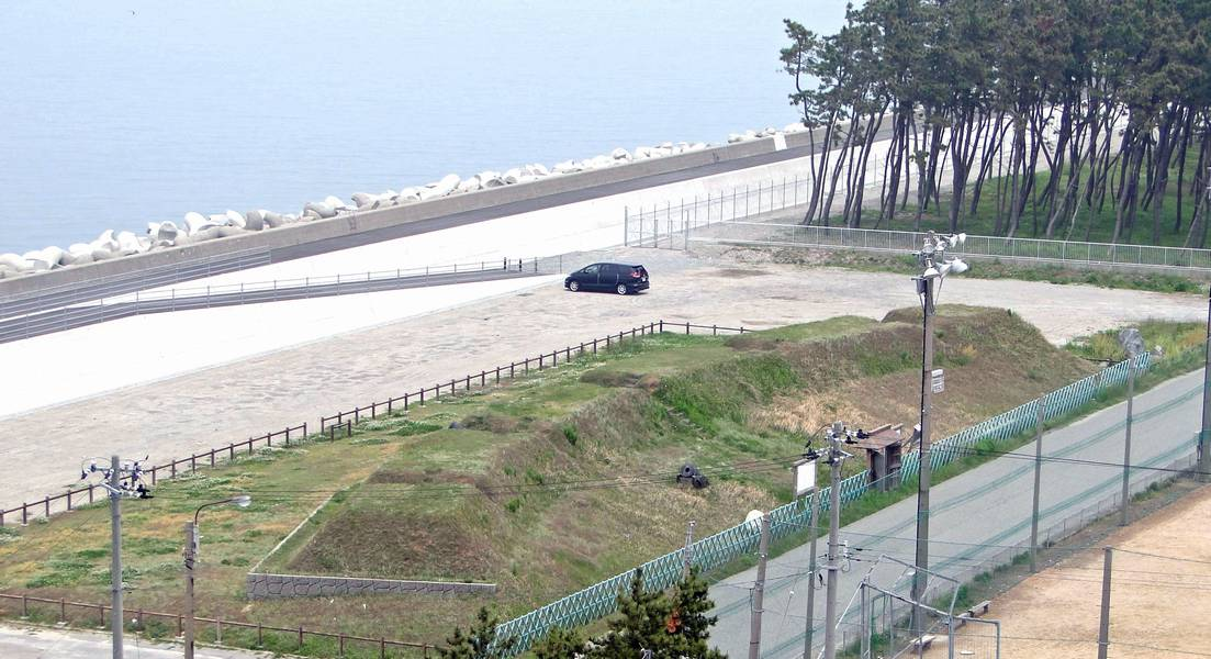 Ikuji Daiba - Ikuji DummyCannon Base